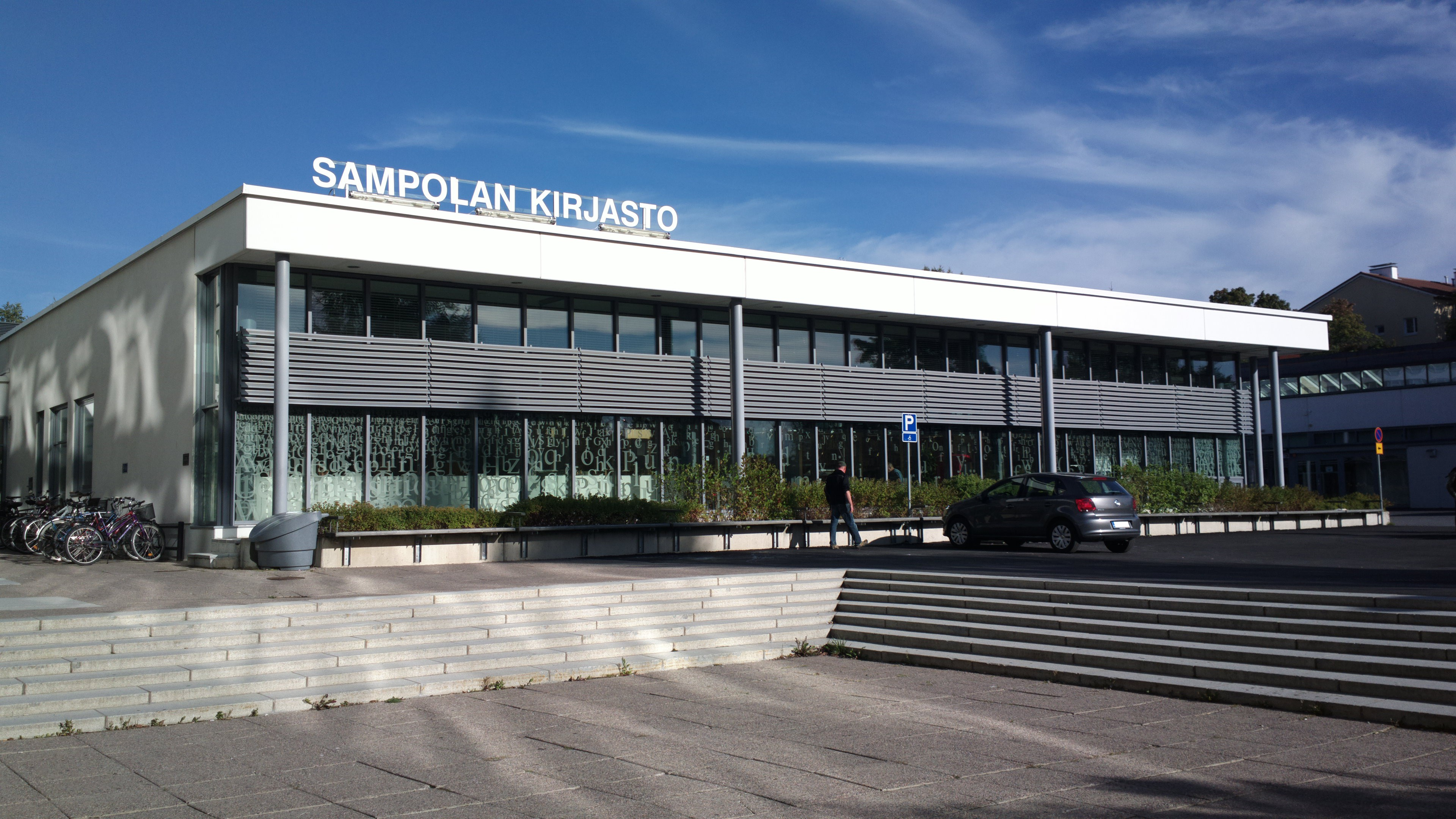 Sampola library